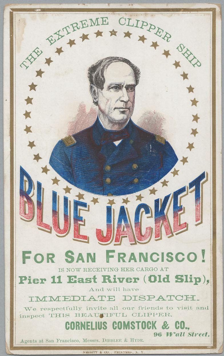 Sailing card for the clipper ship Blue Jacket.